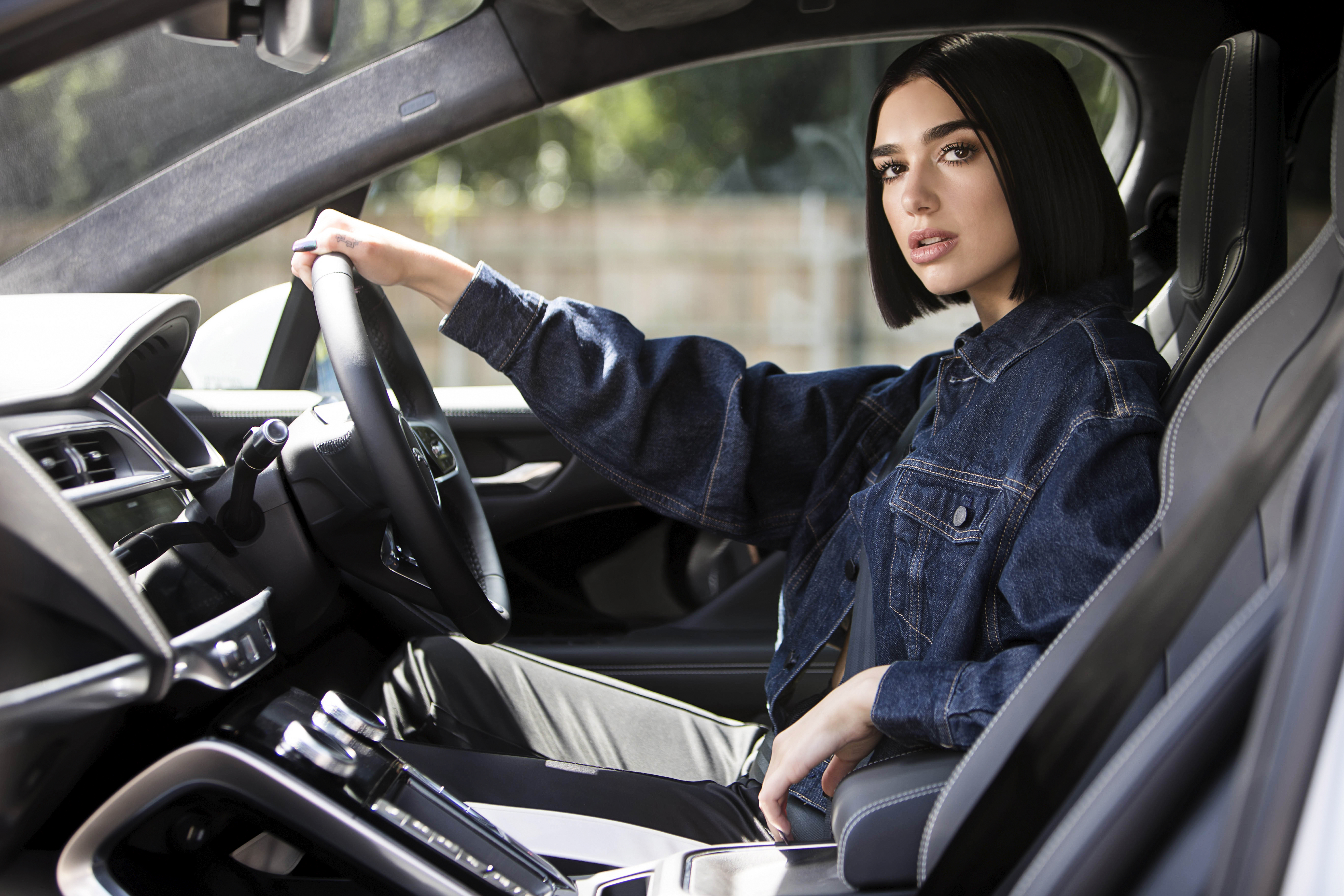 DUA LIPA SHOOT LONDON 11/7/18